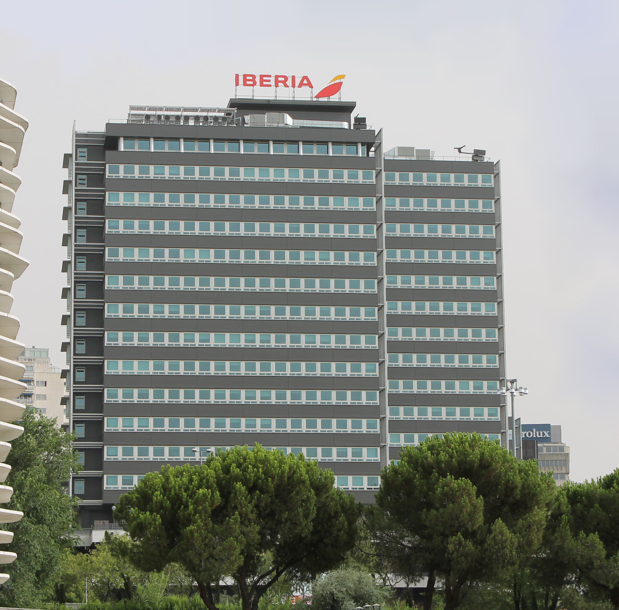 View of Iberia's head offices. Building's renovation was designed by Gabriel Allende and completed in 2011.